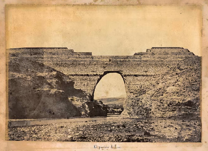 Puentes dam after destruction, Lorca